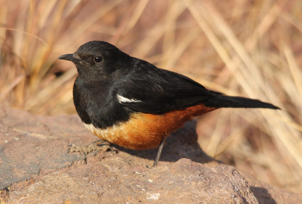 Mocking Cliff Chat Thamnolaea cinnamomeiventris, Marakele National Park, Limpopo Prov., South Africa